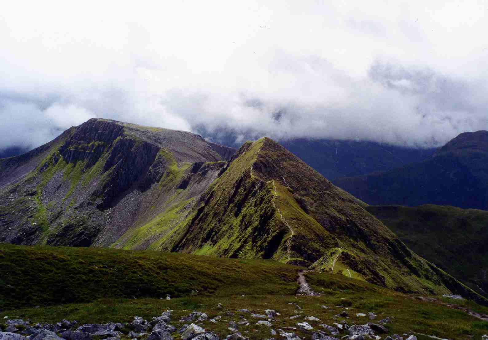 Personal picture taken by Mick Knapton in August 2004